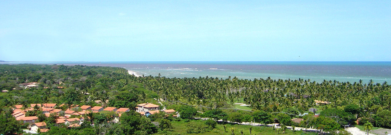 Brazil : Arraial d'Ajuda (Porto Seguro), Bahia, by Michel Y. G. Meunier, .